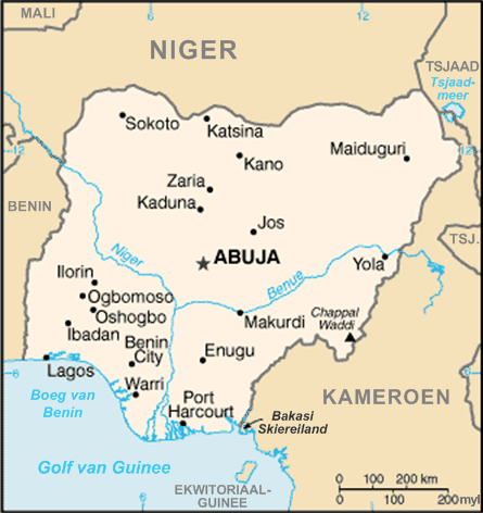 An Afrikaans map of Nigeria.